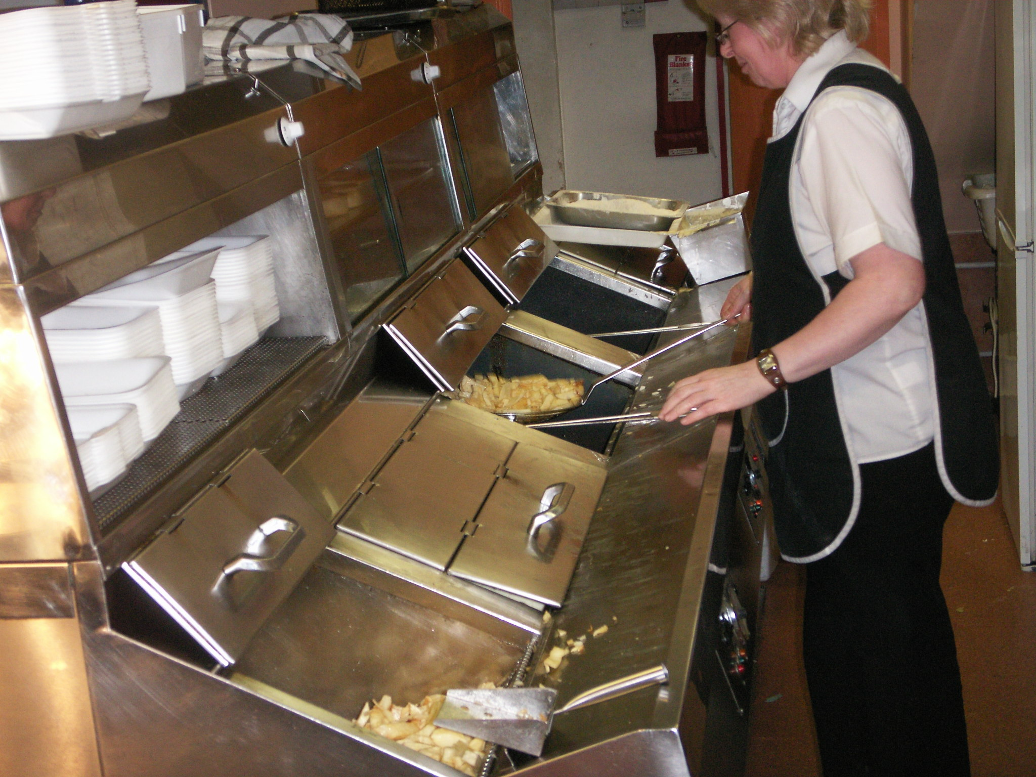 Picture taken by me of a frying range in a chip shop in Portland Street Manchester April 2007